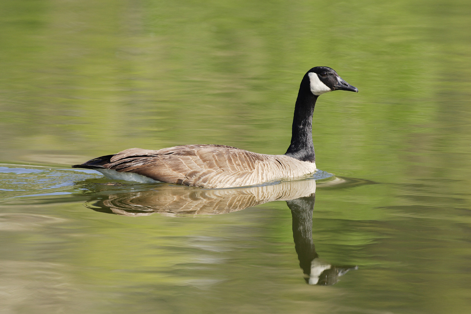 Originally uploaded by User:Mdf to on 02:57, 2 June 2005, with the summary: "Canada Goose -- Bluffer's Park (Toronto, Canada) -- 2005